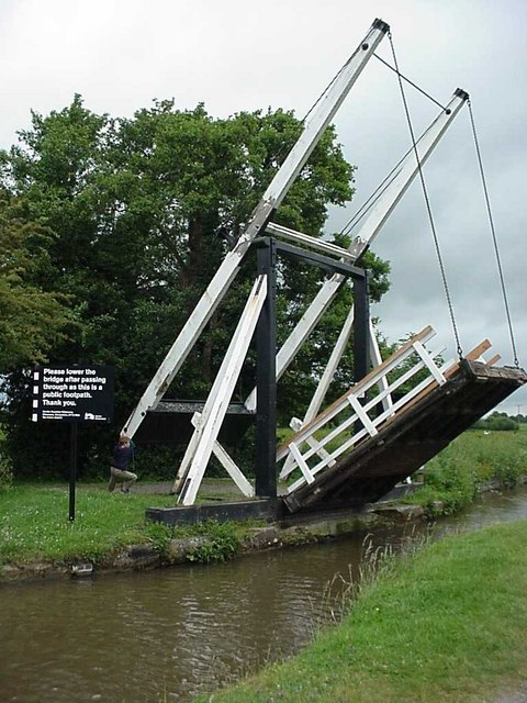 Bridge "Wrenbury Lift #2" Manual-lift bridge just north of Wrenbury in Cheshire, over the Llangollen Canal to allow passage of boats underneath. Sometimes these are chained to the ground to prevent casual lifting, when require releasing with the aid of a windlass.